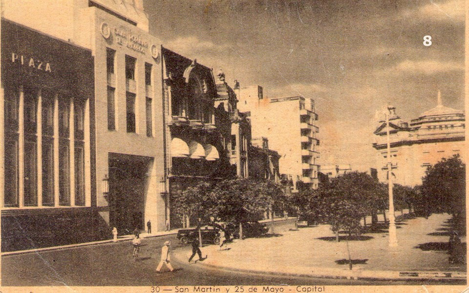 Vista de la calle San Martín y vista parcial de la Plaza Independencia de San Miguel de Tucumán en el año 1956.